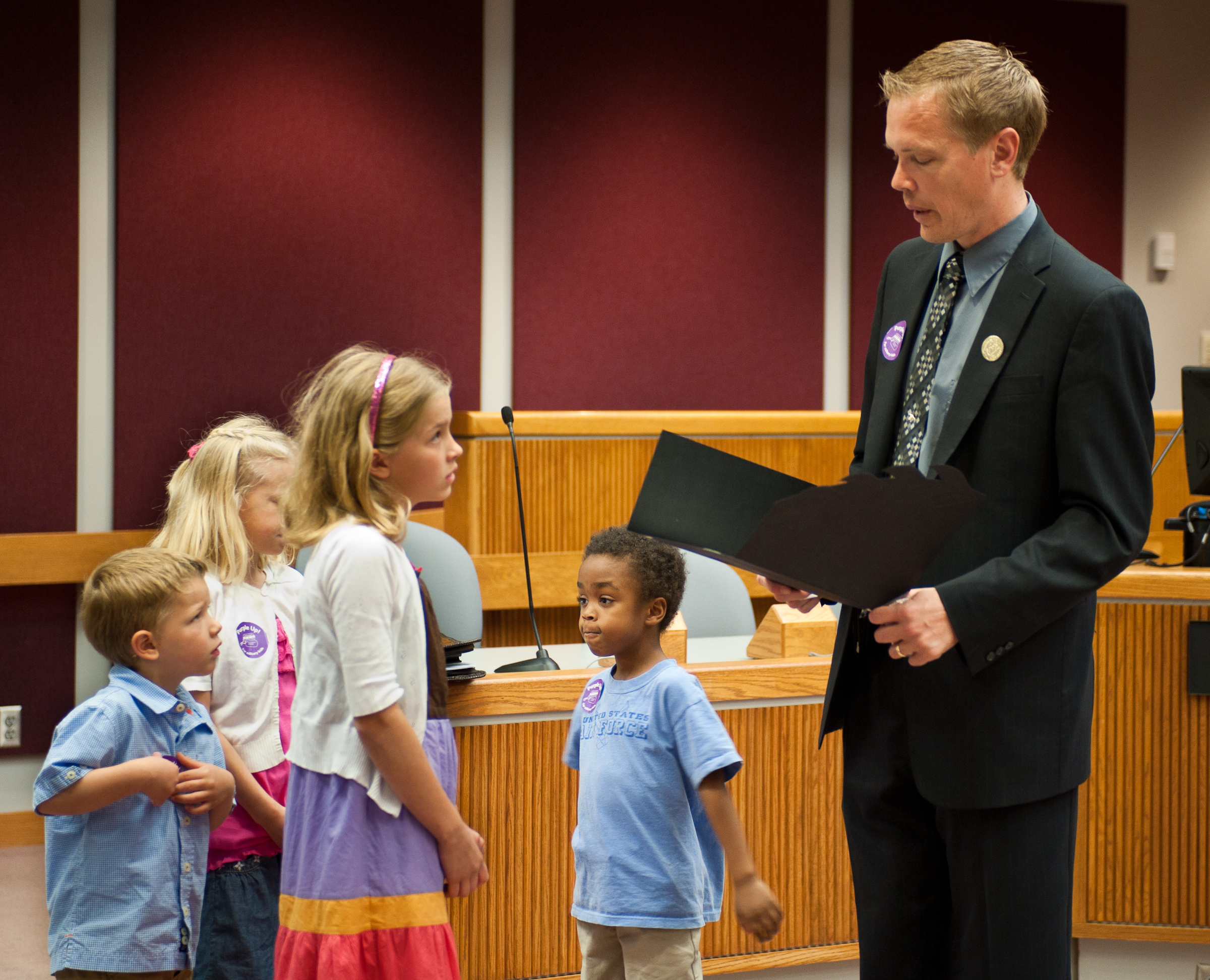 Sam Kooiker, mayor of Rapid City, proclaims April 13th “Purple Up for Military Kids” Day in Rapid City on April 12, 2012. The Operation Military Kids program organized this event to honor the sacrifices of military kids nationwide by wearing purple on April 13th.